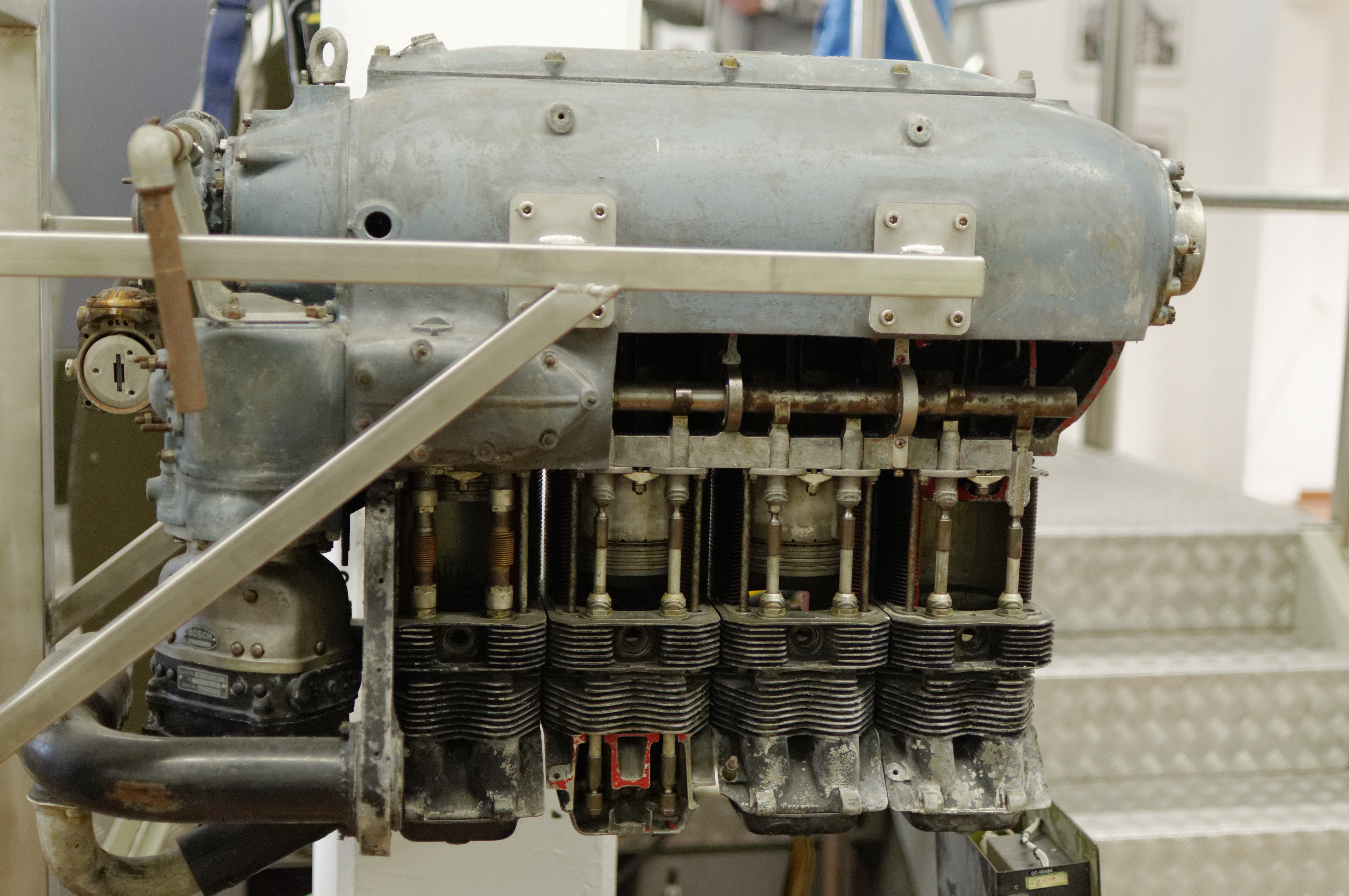 A Hirth HM 500 on display